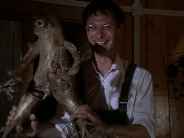 Frame from the movie: Little Otik (2000) Jan Švankmajer